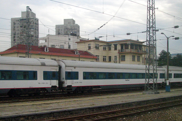 China railway 25T class soft seat coaches (RZ25T) produced by BSP (Bombardier Sifang Power (Qingdao) Transportation Ltd) At Shanghai West Railway Station